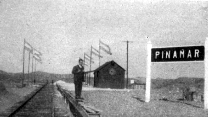 The first Pinamar station, opened in August 1949 by state-owned Gral. Roca Railway. The line between Gral. Madariaga and Pinamar was closed in 1977 and its tracks removed. In 1994, provincial company Ferrobaires reopened the line building a new station named "Divisadero de Pinamar", located further from the main city.